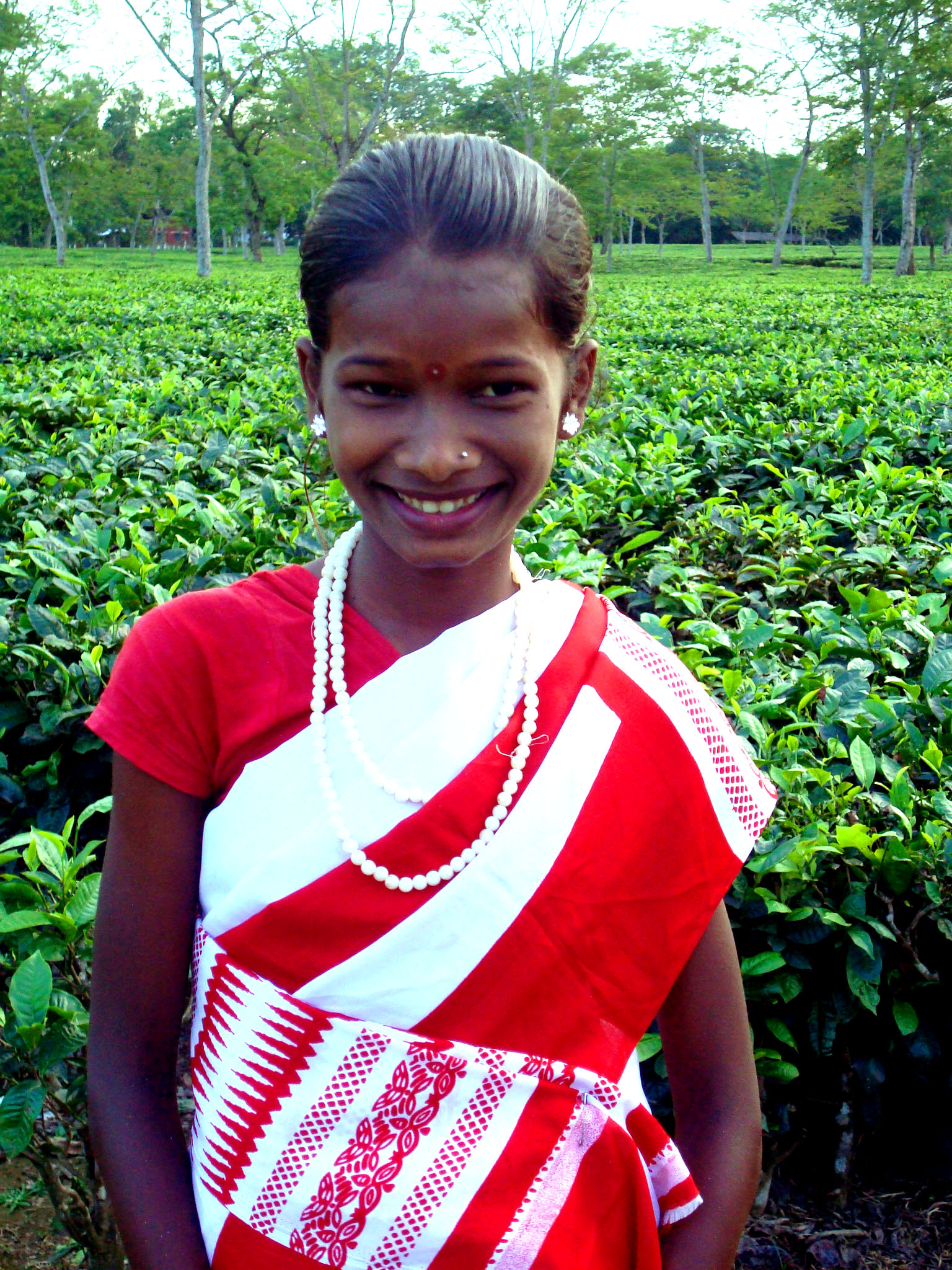 A tea tribe girl of Assam.